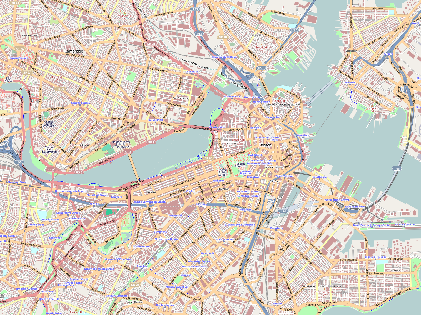 Map of the central area of Boston and Cambridge, exported from OpenStreetMap.